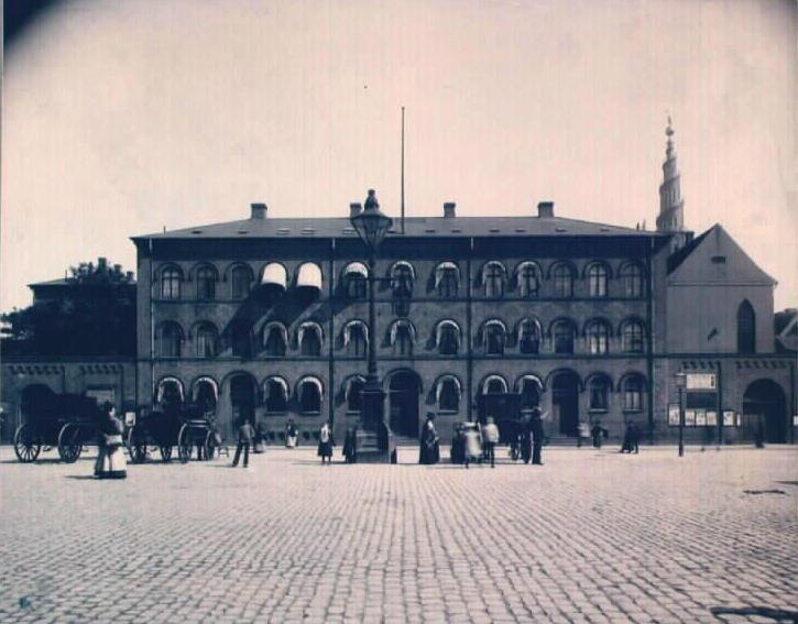 The former prison in Christianshavn, Copenhagen, demolished 1928.